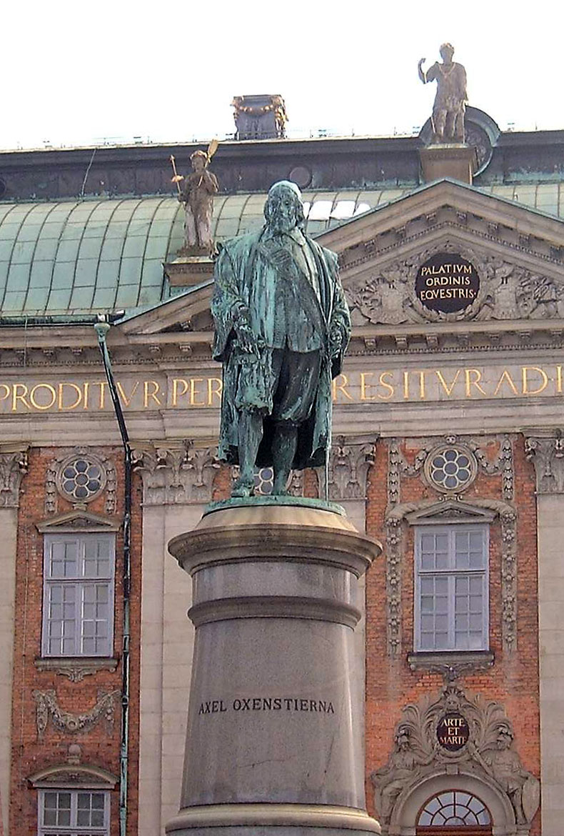 Statue of Axel Oxenstierna in front of Riddarhuset, Stockholm